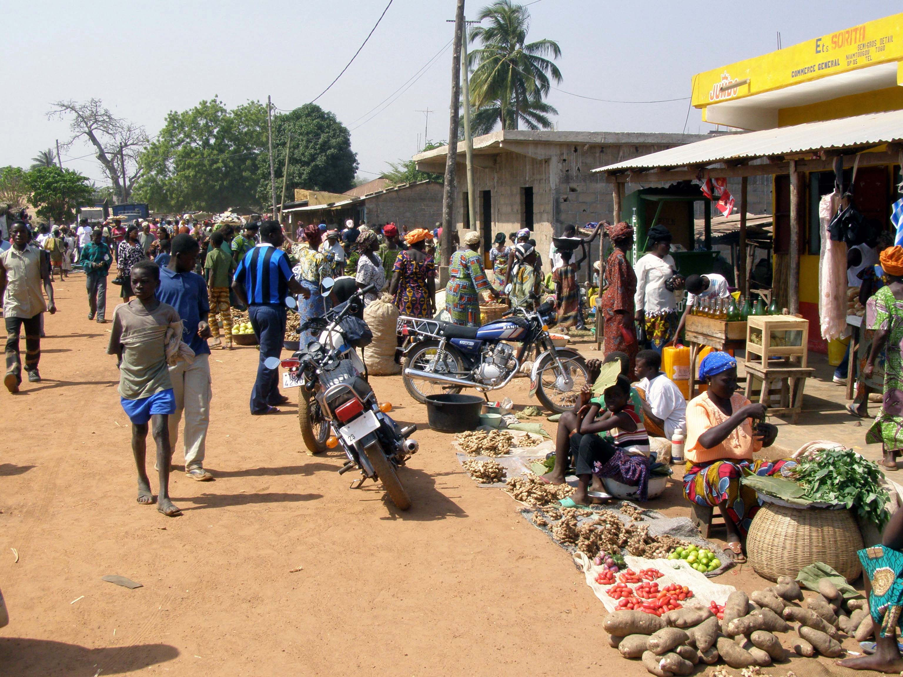 City of Niamtougou , Togo